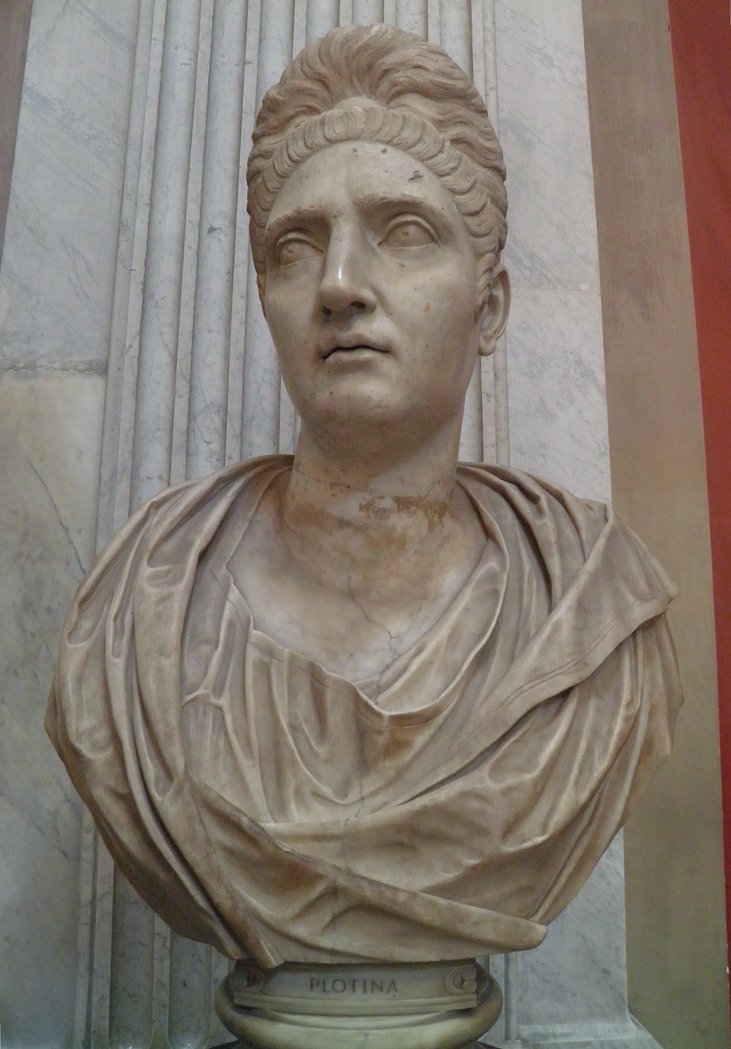 The size of the portrait suggests that it was made after her deification (129 A.D.).